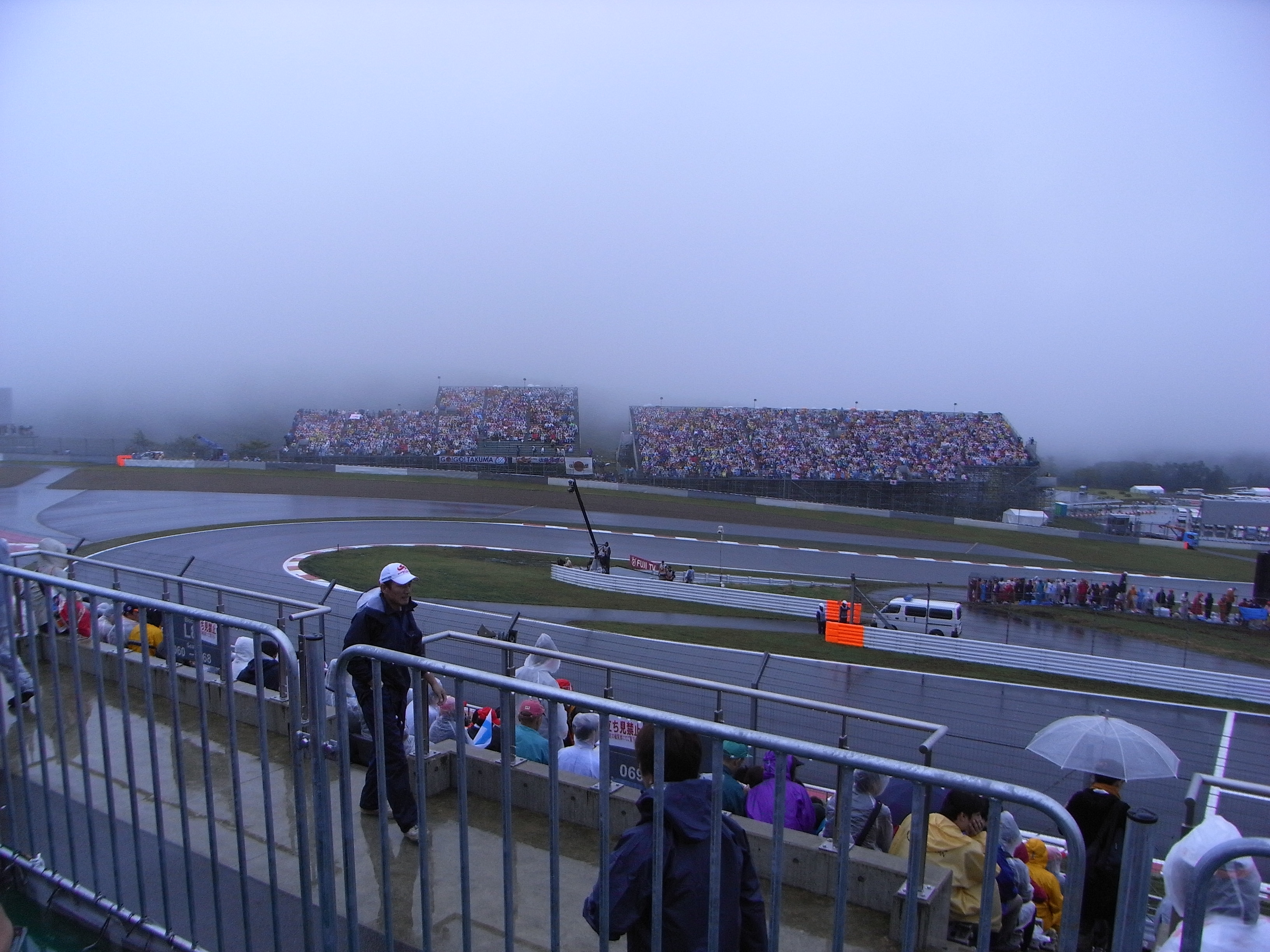 2007 Japanese Grand Prix. 'C' stand